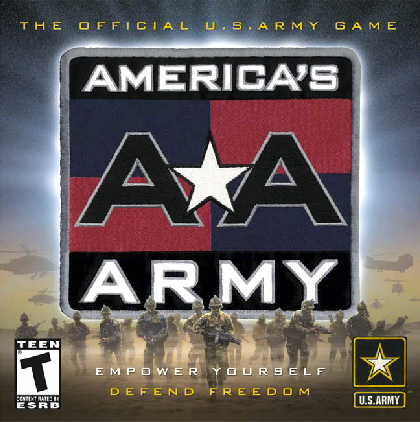 America's Army 2 Game Cover